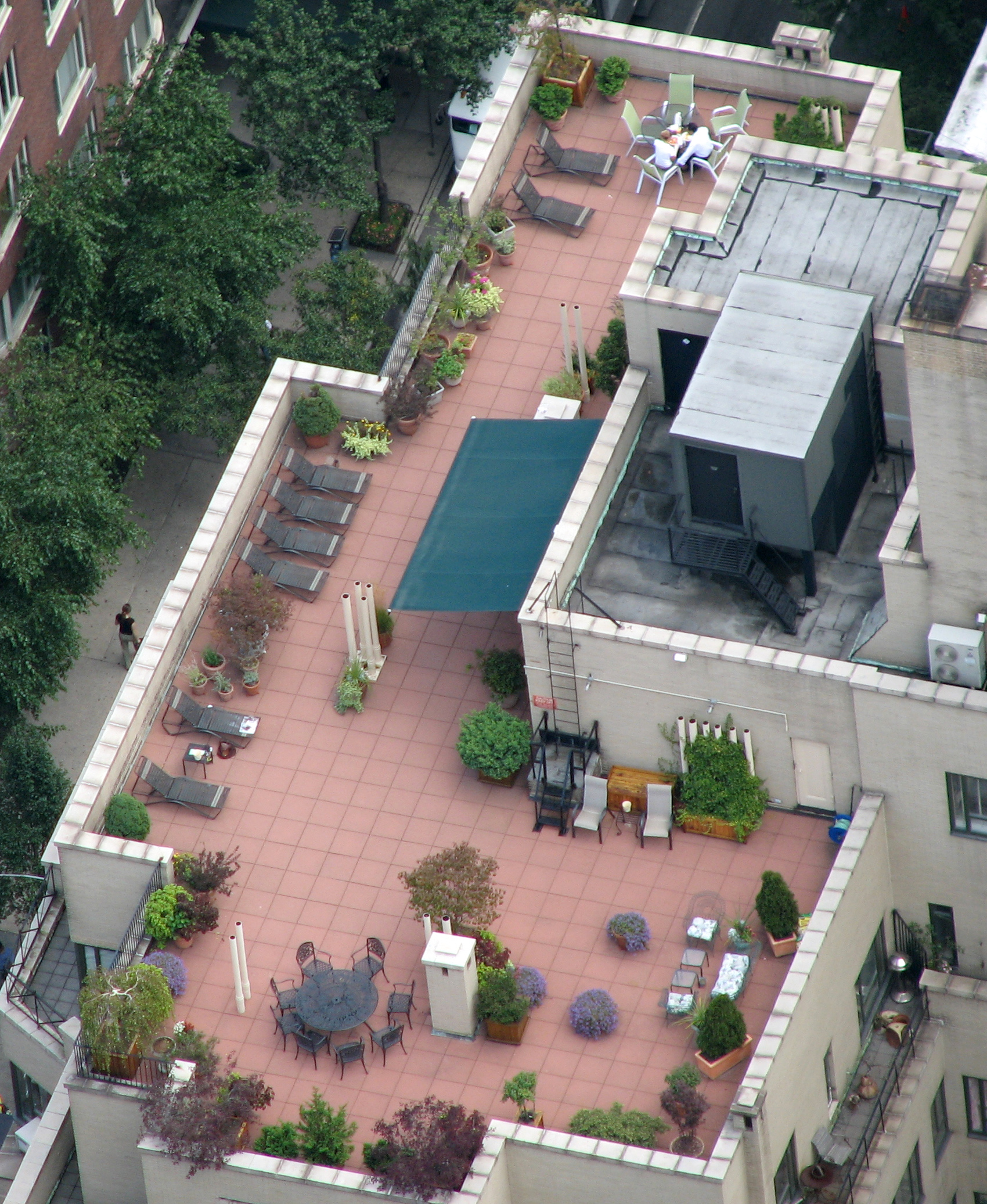 Rooftop garden in New York City. Photo was taken from the Empire State Building.